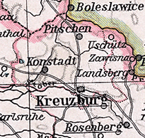 Detail from a map of Silesia.